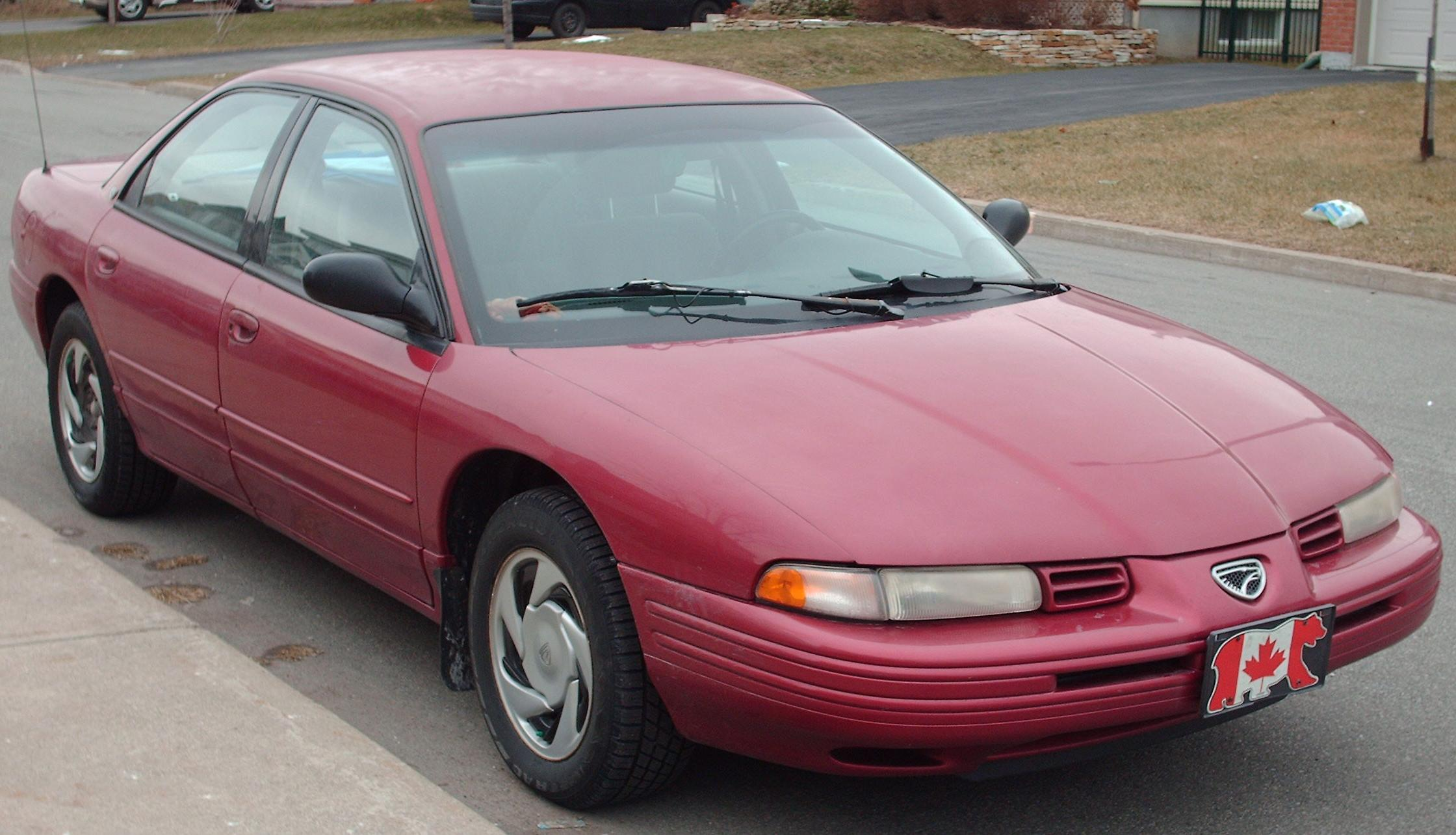 1993-1997 Eagle Vision photographed in Montreal, Quebec, Canada.